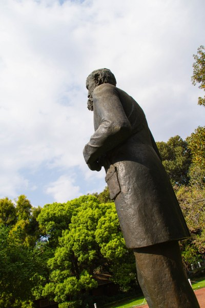 This media shows a South African Protected Site with SAHRA file reference 9/2/258/0088.